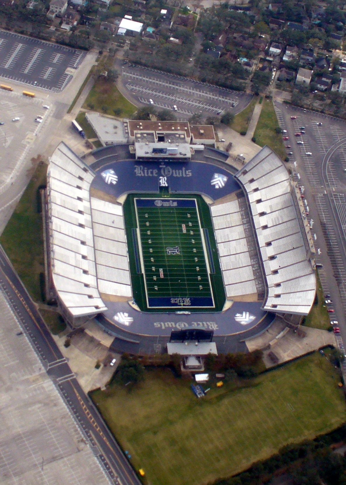 Aerial view of Rice University football stadium, Houston, Texas